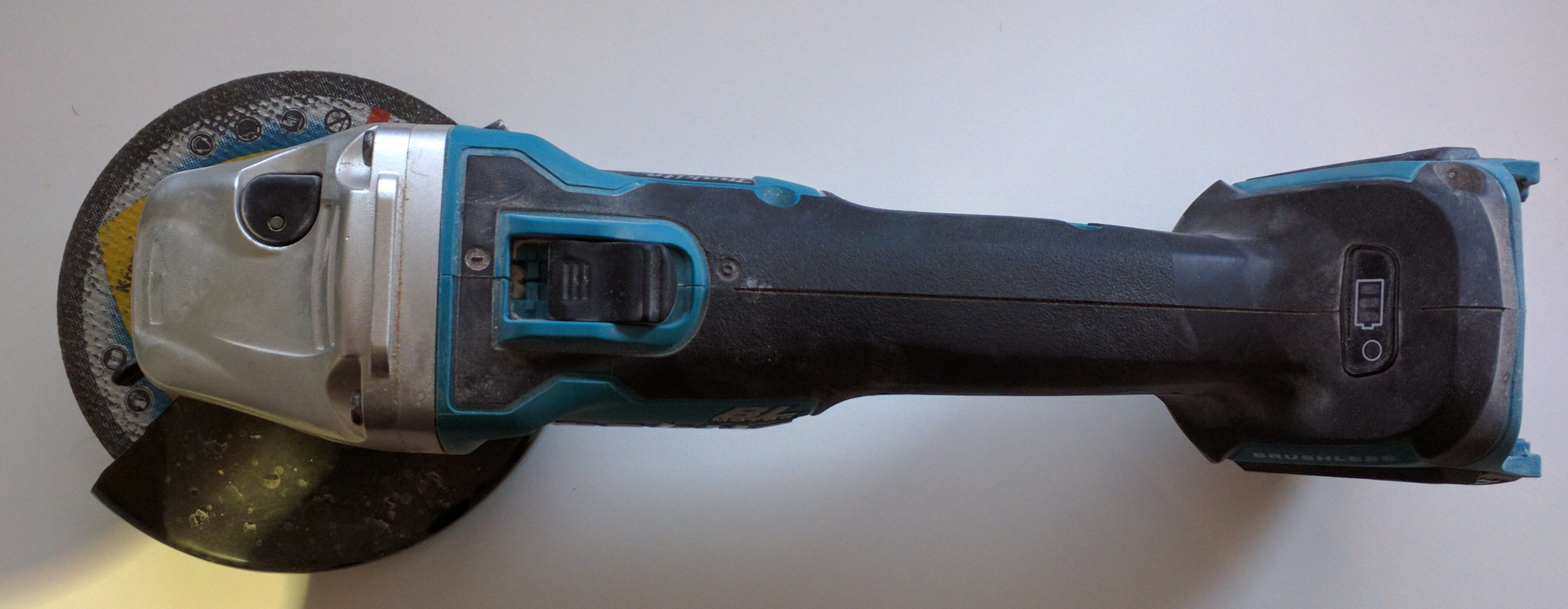 Makita DGA504 cordless angle grinder